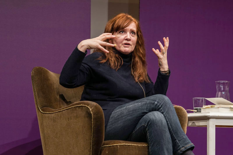 Auður Ava Ólafsdóttir ar LitteraturXchange Festival in Aarhus 2019